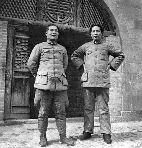 Mao Zedong and Zhang Guotao in Yan'an.